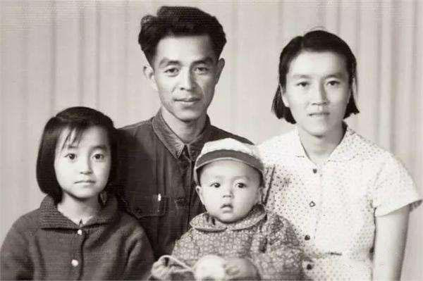 Chu Shijian's Family Photo, taken in 1965. From left to down: Chu Shijian, Ma Jingfen, Chu Yingqun and Chu Yibin. 中文（中国大陆）: 1965年的褚时健家庭照。后一排由左至右：褚时健、马静芬，前排从左到右：褚映群和褚一斌。